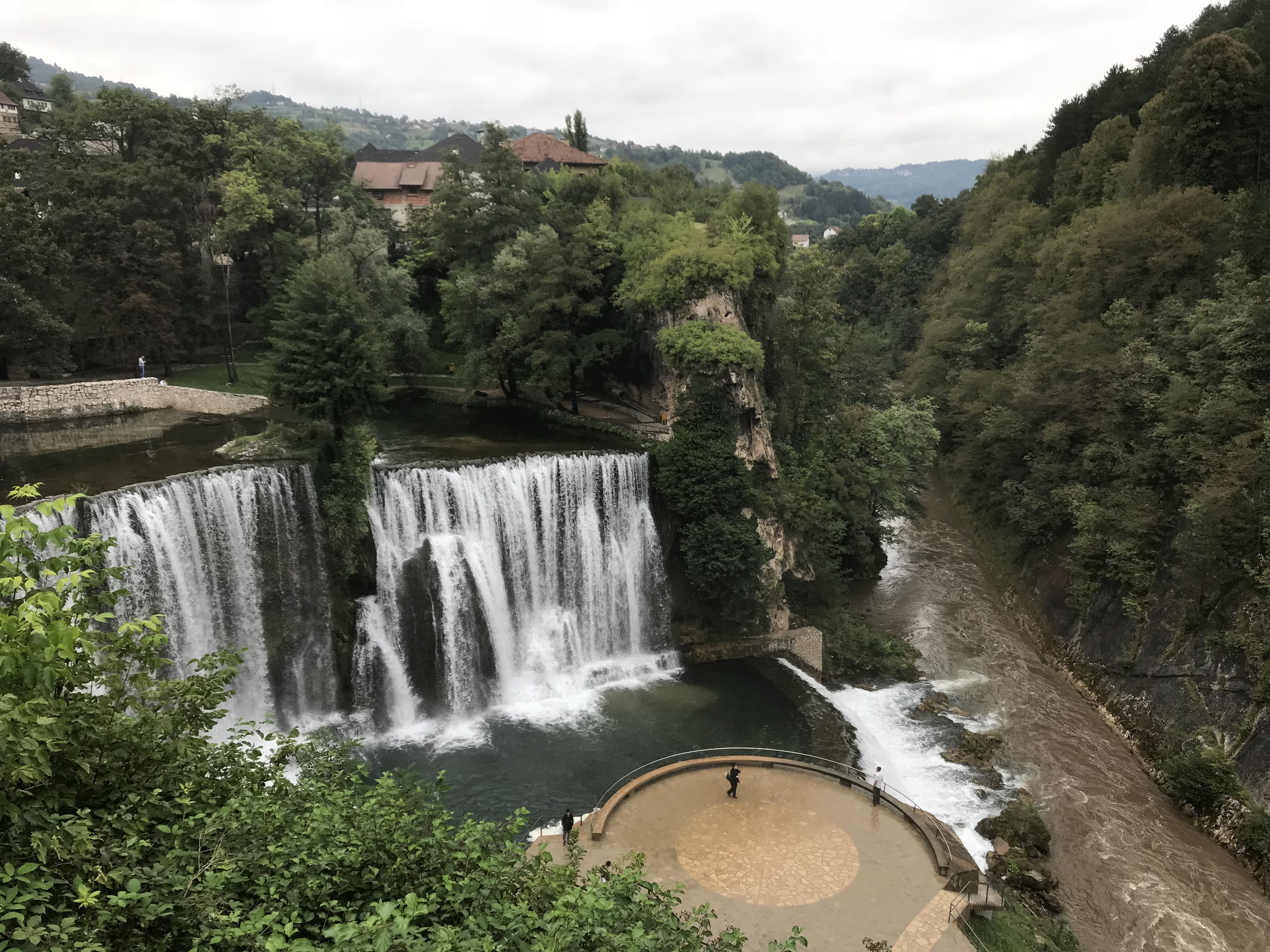 Jajce in Bosnia and Hercegovina - Pliva Waterfall